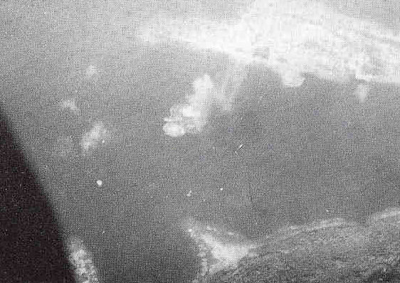 The Japanese cargo ship Koei Maru is straddled by bombs dropped from aircraft the USS Yorktown (CV-5) in Tulagi harbor on 4 May 1942. The cargo ship escaped without serious damage.